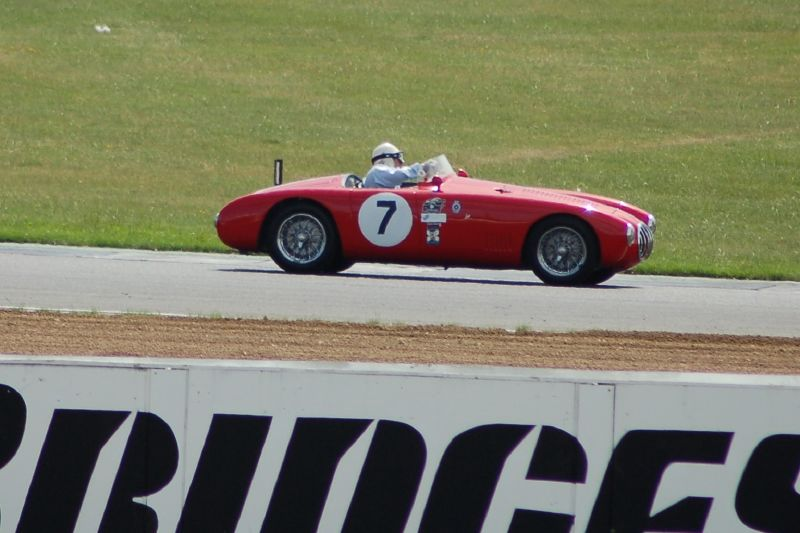 Sir Stirling Moss; giving it the beans at 77 years old!!! He was so good, he was overtaking cars in the next class up. A Master.